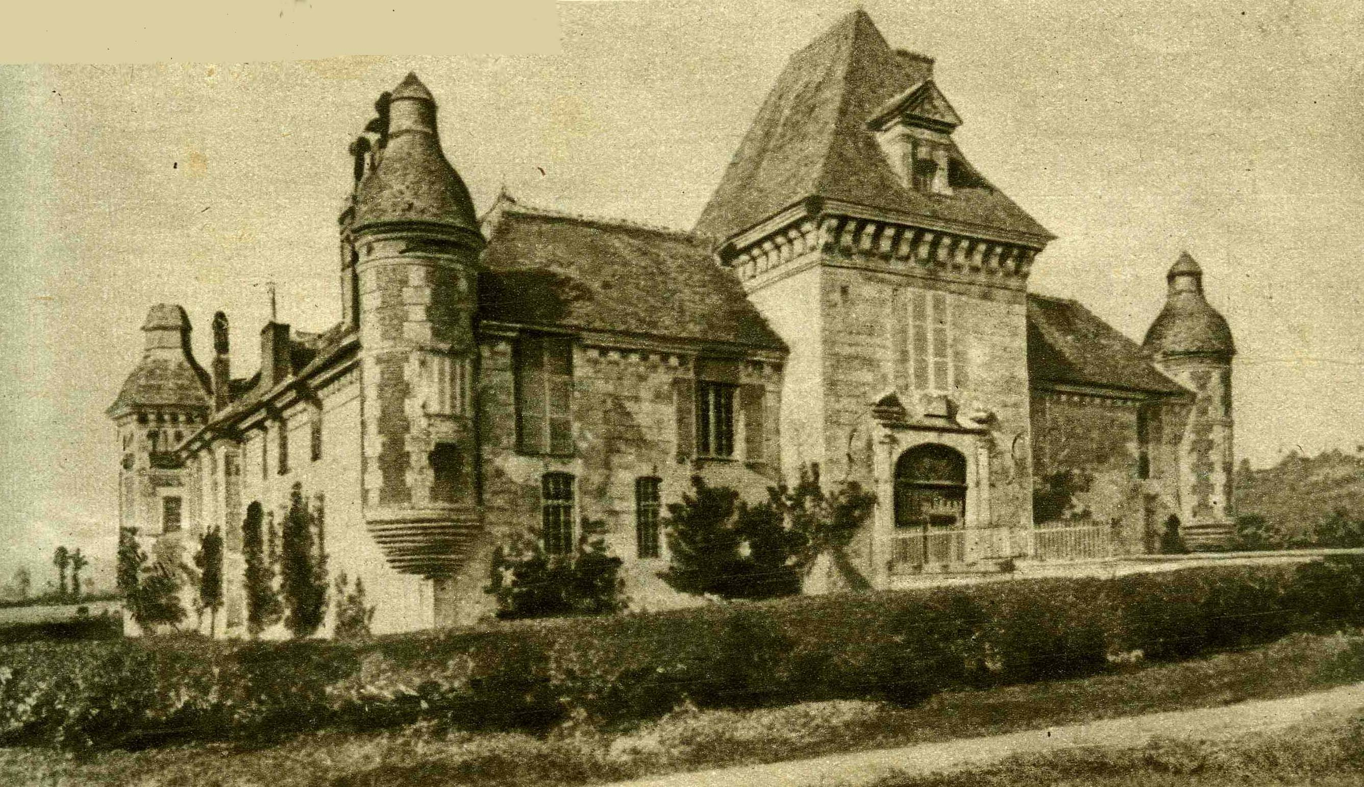 Castle (near Lisieux) of French Senator Charles Humbert (where he was arrested)